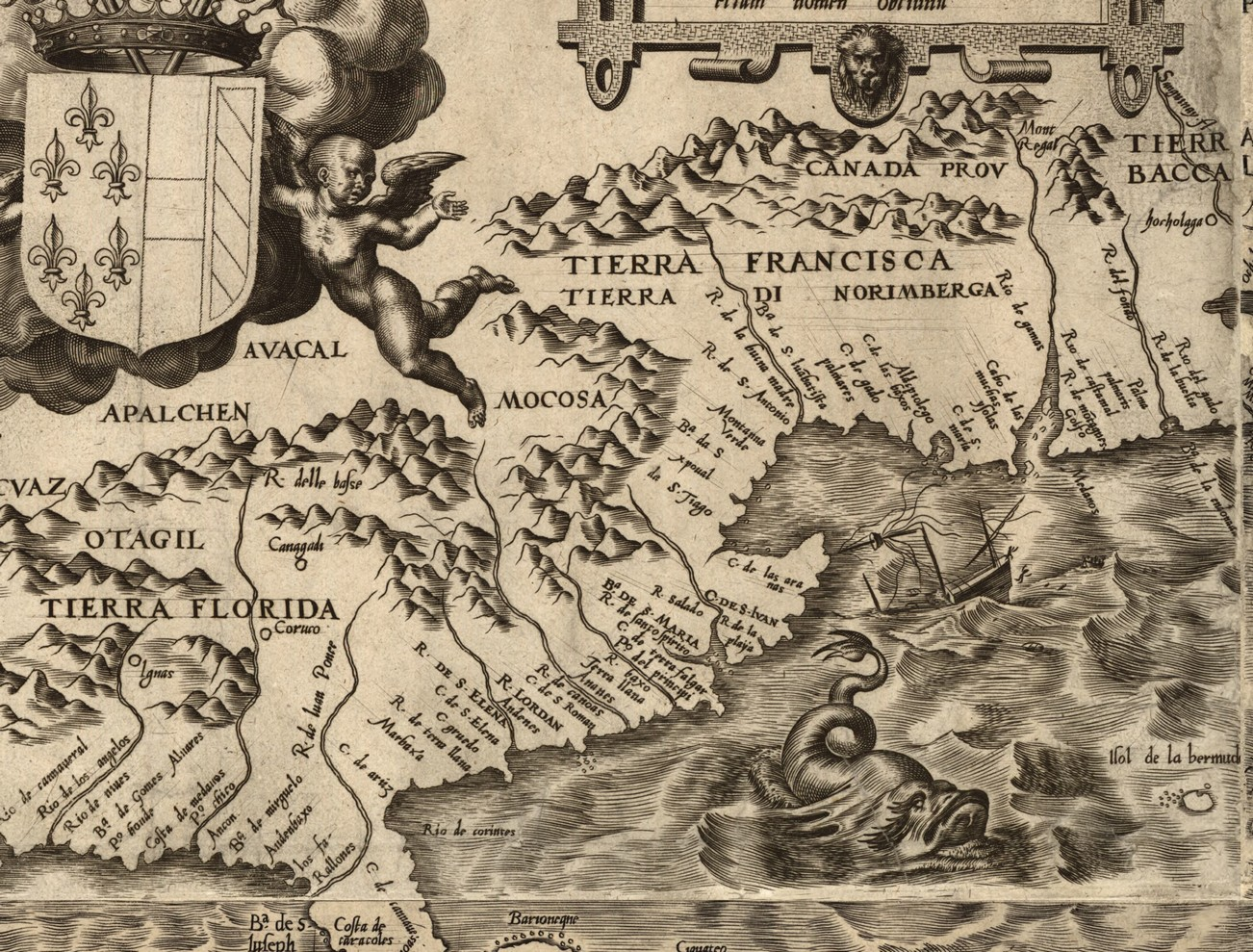 Clip from 1562 Map of Spanish North America acquired by the Library of Congress 1949, Described in Quarterly Journal of the Library of Congress, v. 6, no. 3 (May 1949), p. 18-20. From the Rosenwald Collection, Library of Congress, no. 1303.